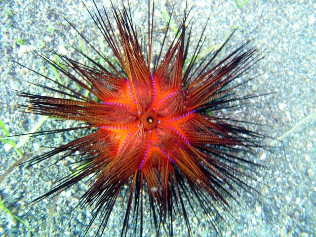 Star urchin (Astropyga radiata), Anilao, Batangas, Philippines